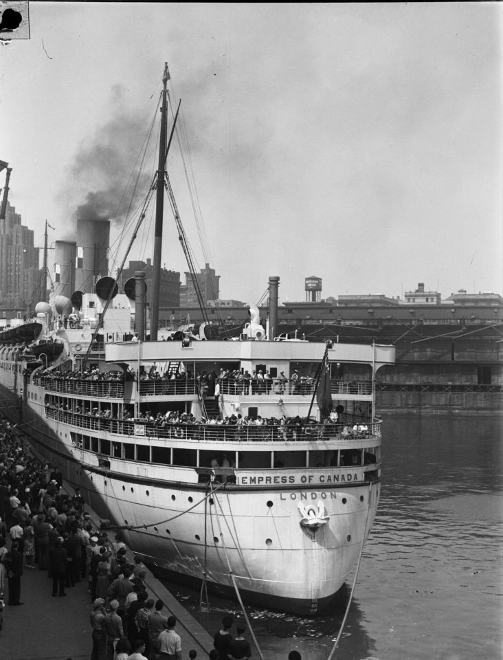 For documentary purposes the original description provided by BAnQ has been retained. Additional descriptive text may be added by Wikimedians with the wiki description = parameter, but please do not modify the other fields.